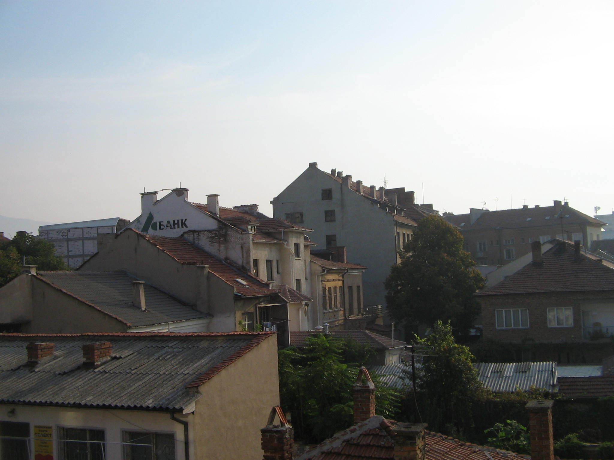 Picture taken by myself.